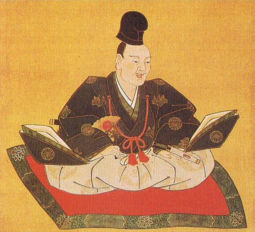 A portrait of Minamoto no Yoshinaka (Possession of Tokuonji Temple in Kiso Town, Kiso County, Nagano Prefecture)